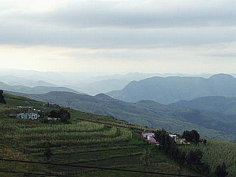 View west near Piggs Peak in Swaziland (now Eswatini).